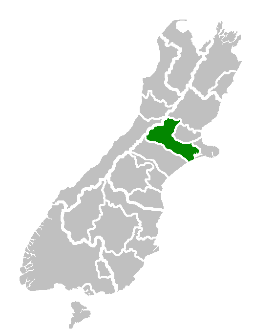 Location of Selwyn District.